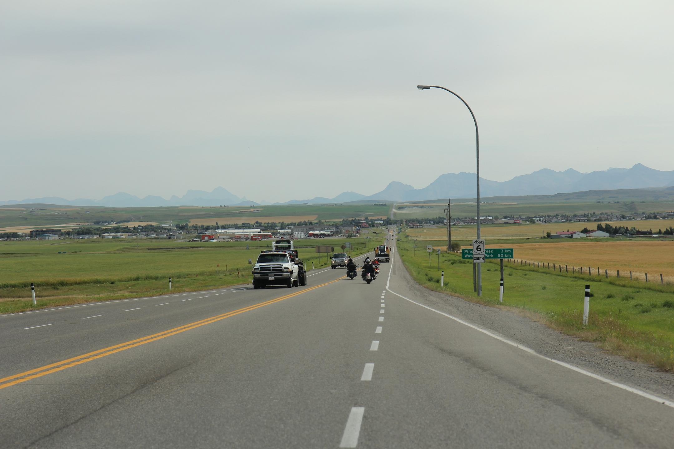 Looking south on Alberta Highway 6 from its northern terminus. In the distance is a panorama of Pincher Creek